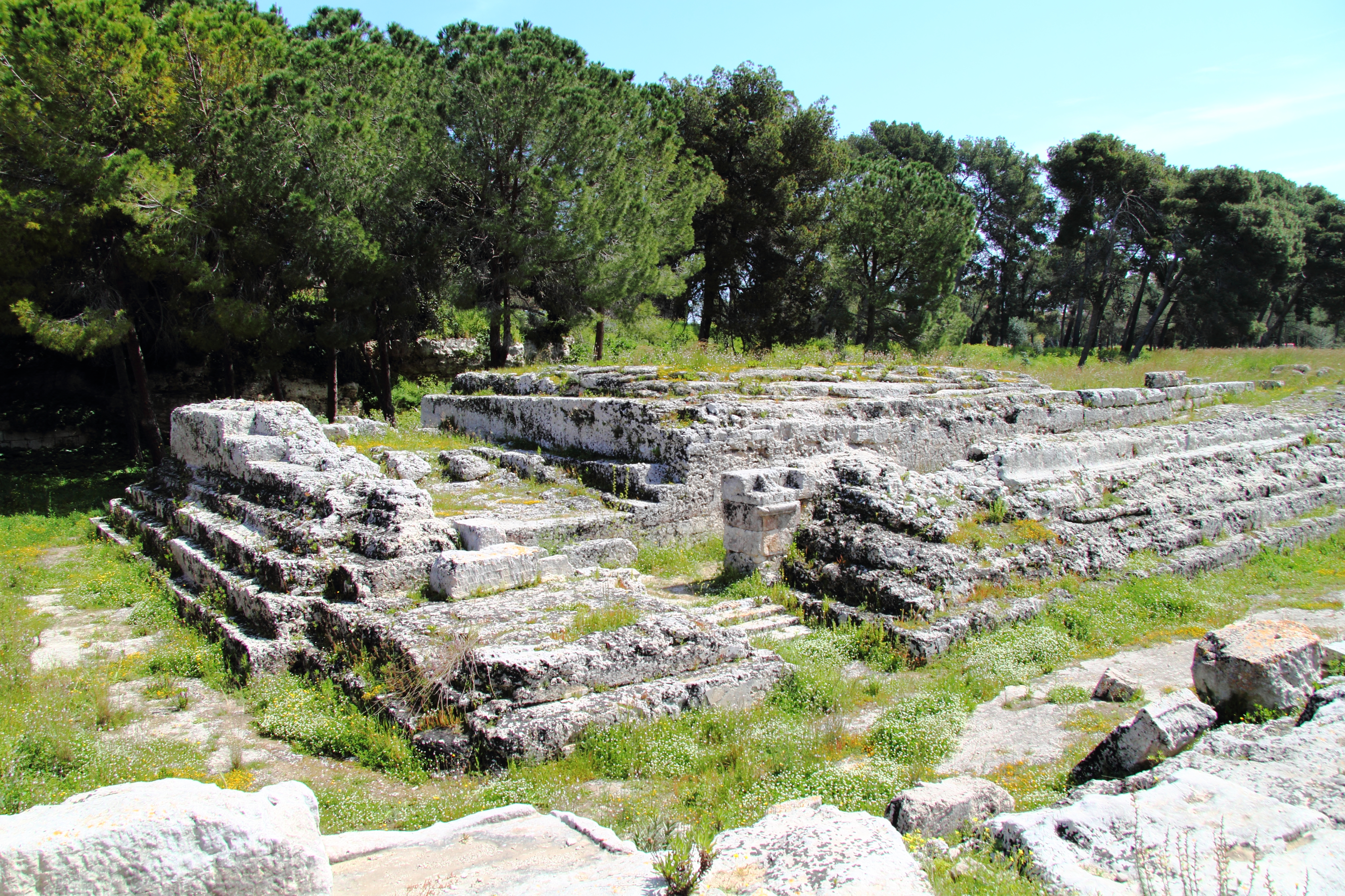 Italy: Syracuse on Sicily, archaeological park